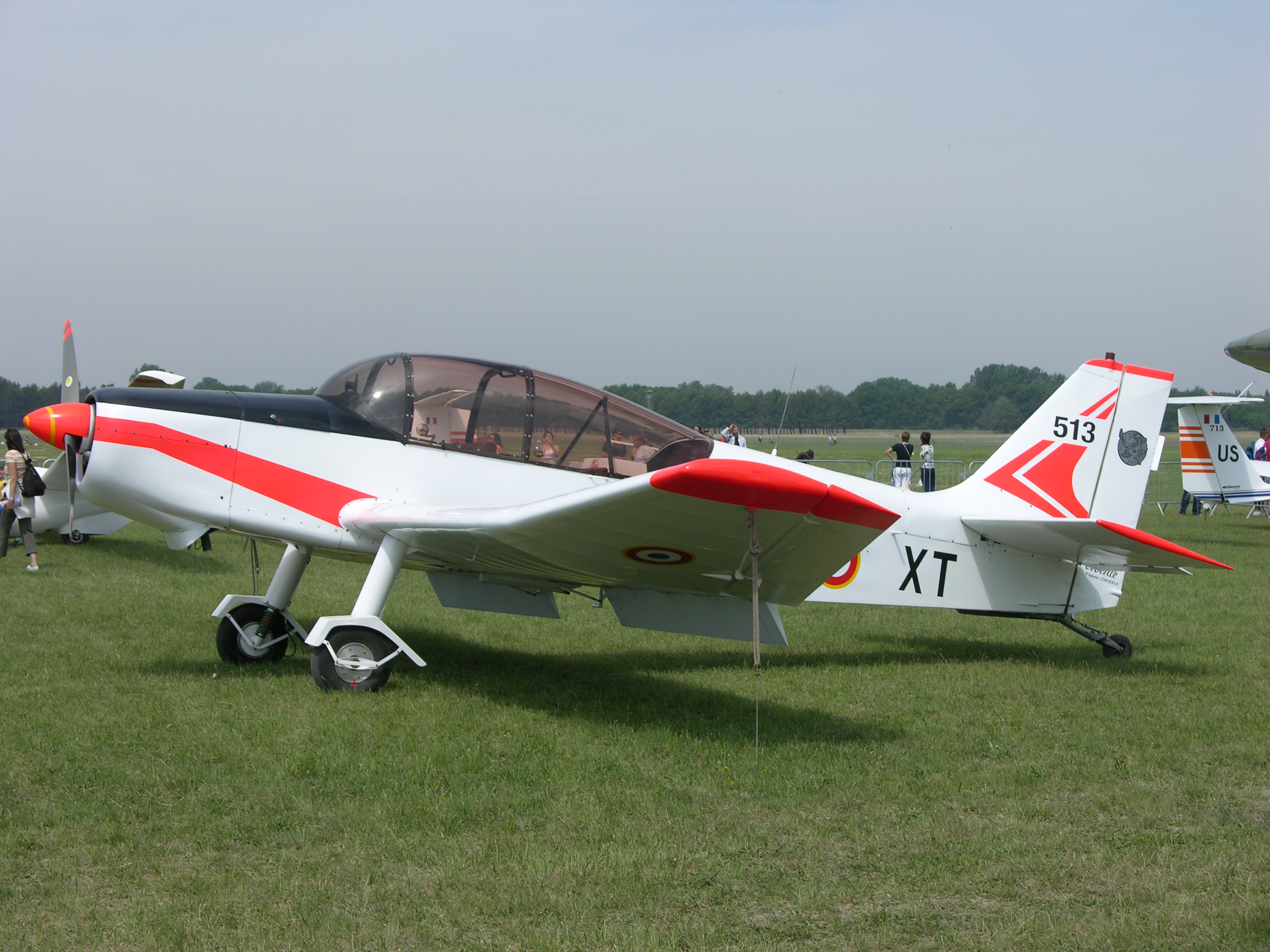 513XT Jodel D.140R Abeille SAVV 00.701 Salon de Provence, another glider tug at Salon